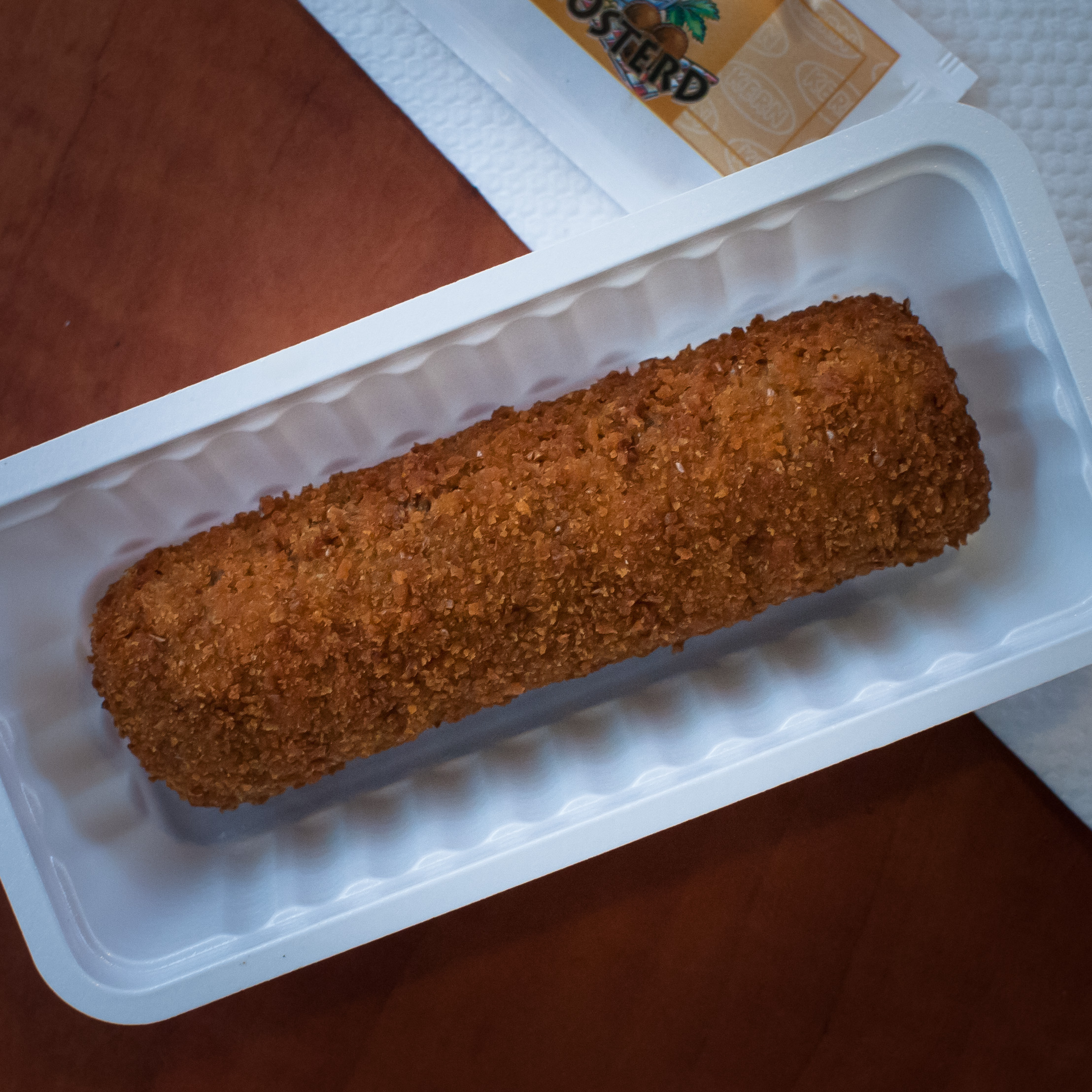 A rundvleeskroket is a savoury Dutch snack made from flour-thickened beef ragout which is let to firm up before being shaped like a sausage and then breaded and deep-fried. Most often it is eaten with mustard. Often it is also eaten in a bun.